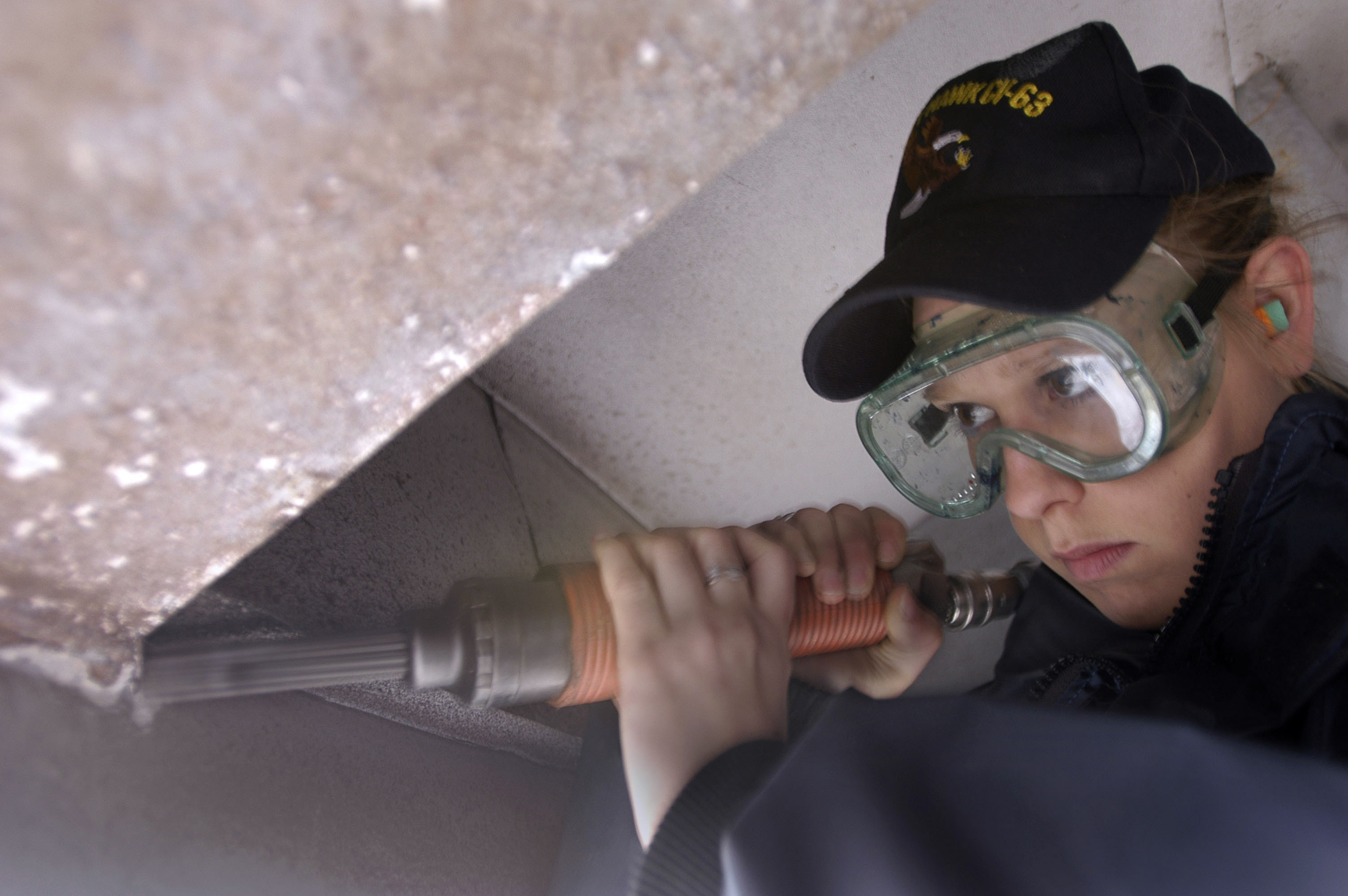 060323-N-3946H-042 Yokosuka, Japan (March 23, 2006) - Seaman Apprentice Markie Moon uses a needle-gun to remove old paint and corrosion aboard the conventionally-powered aircraft carrier USS Kitty Hawk (CV 63). Kitty Hawk is currently conducting a Ship's Restricted Availability (SRA). SRA is an intensive maintenance period designed to help keep the ship combat ready. Currently in port, Kitty Hawk demonstrates power projection and sea control as part of the U.S. Navy's only permanently forward-deployed aircraft carrier. U.S. Navy photo by Photographer's Mate Airman Patrick L. Heil (RELEASED)